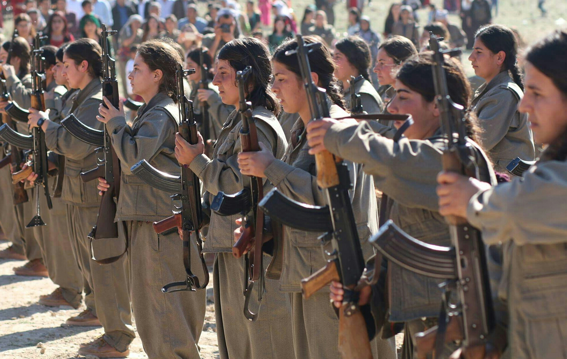 Kurdish PKK Guerillas